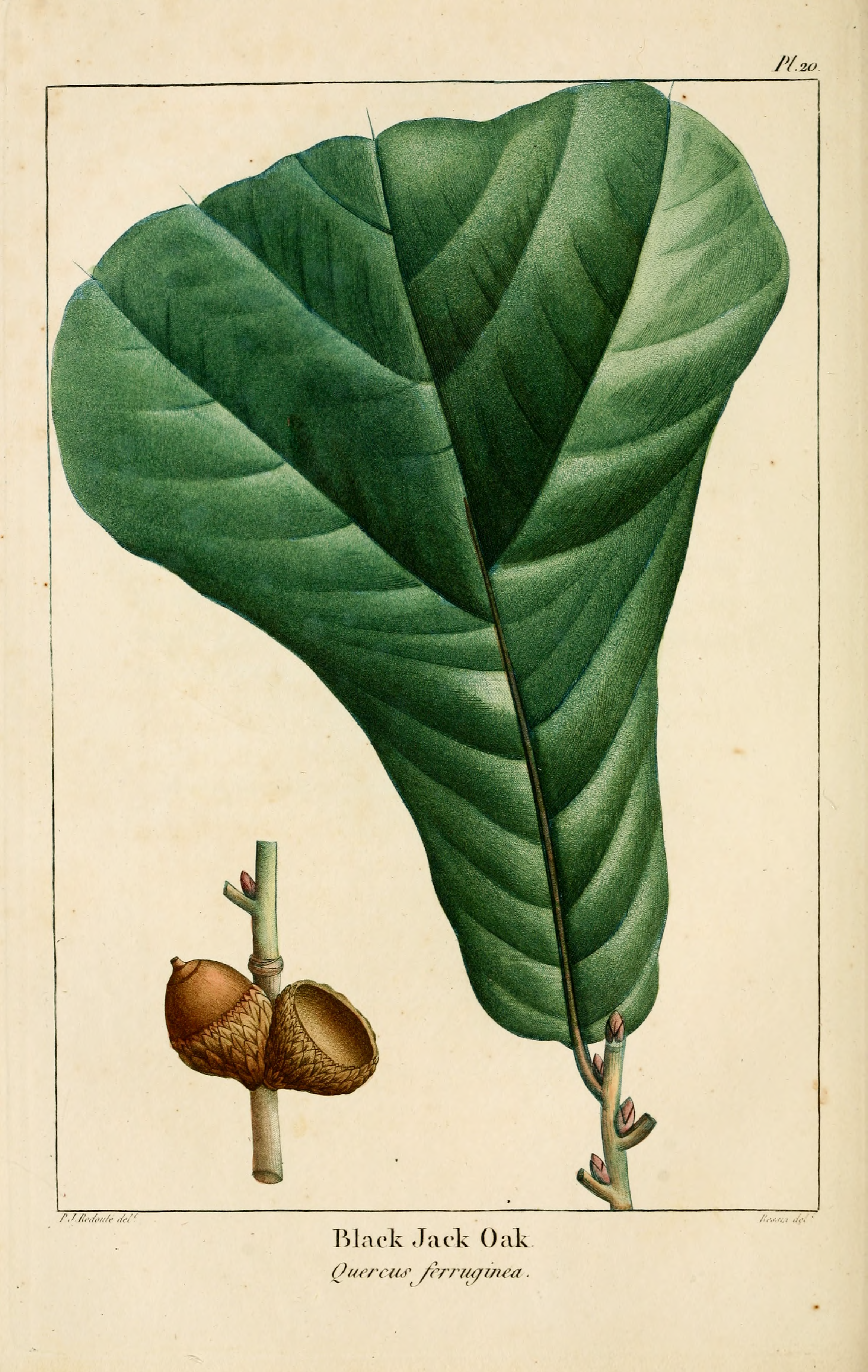 Quercus marilandica. (Caption: Black Jack Oak. Quercus ferruginea.)